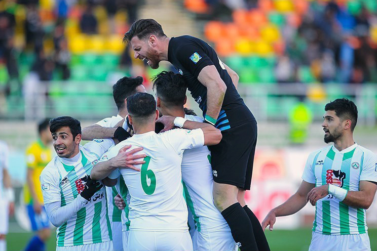 Zob Ahan goalkeeper Mehdi Khalil celebrating with his teammates. Zob Ahan FC vs Sanat Naft Abadan FC, 7 February 2020